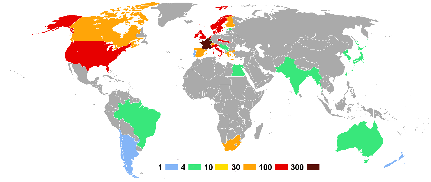 Countries that competed in the 1920 Summer Olympics by number of athletes. Derived from Image:1920_Summer_olympics_team_numbers.png and Image:BlankMap-World-1921.png.